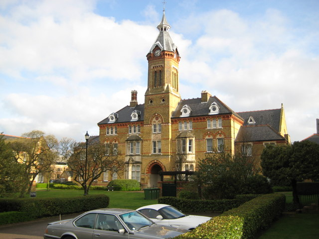 Former London Orphan Asylum, Watford. Now a housing development.